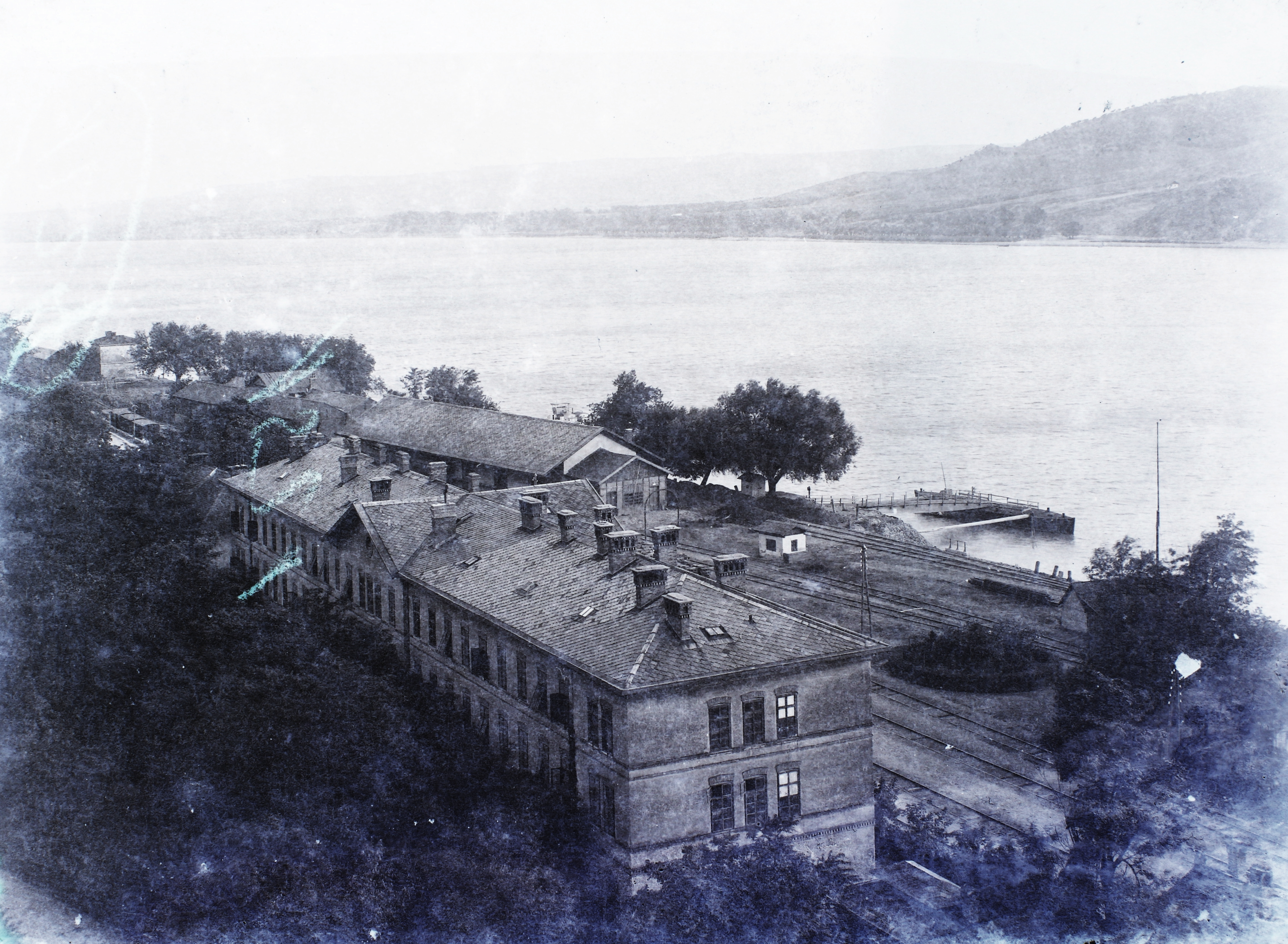 the harbor and freight railway station of Baziaș/Baziasch/Báziás/Bazijaš